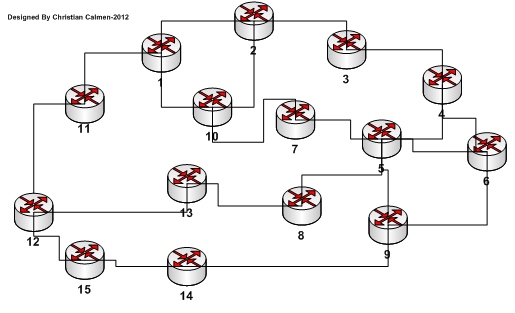 This is a network topology using Yen's model (loopless model) to solve the K Shortest path problem